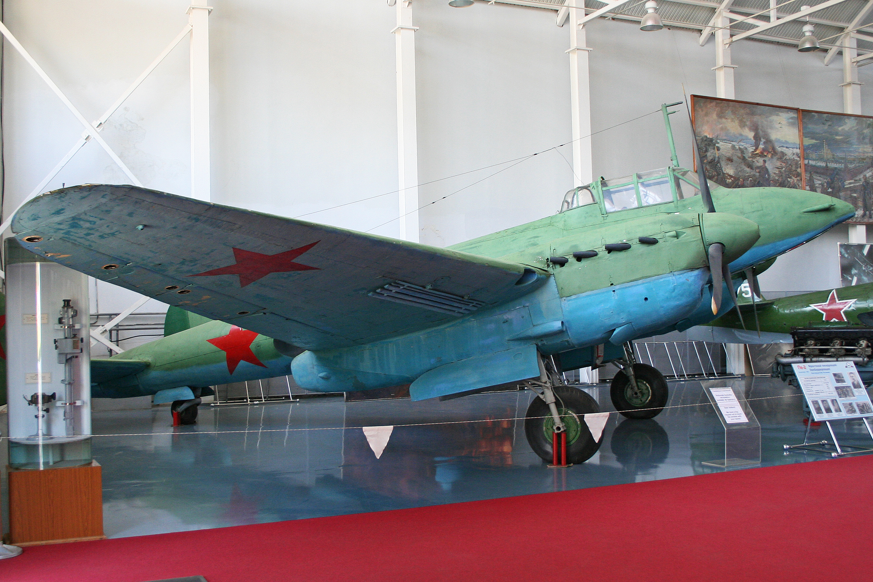 This is one of only three surviving Pe-2 airframes. It's an 'FT' variant, the main produnmaruction version. Built as a dive-bomber, it proved to be an excellent ground attack aircraft which also served well as a night fighter and reconnaissance aircraft. This example has no known identity. It is on display in the new hangar near the museum entrance, which houses many of the museums WW2 types. Russian Air Force Museum. Monino, Russia. 13-8-2012